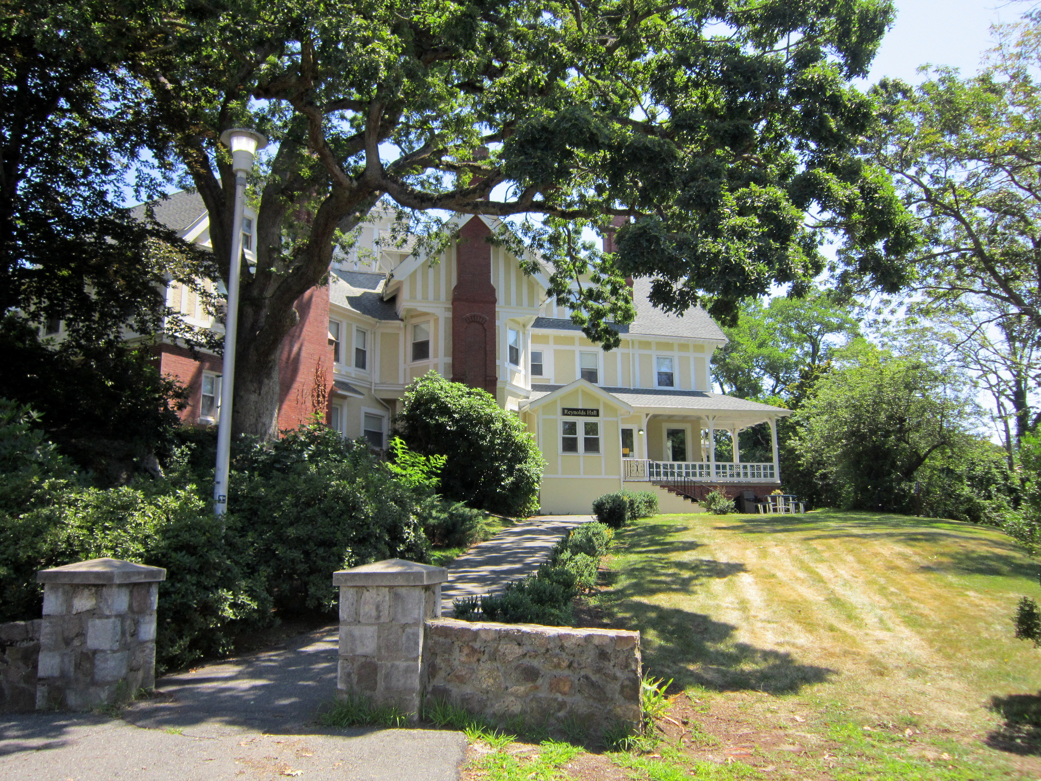 Reynolds Hall Endicott College 376 Hale Street Beverly, Massachusetts This beautiful mansion was once the summer home of Herbert Mason Sears, prominent Boston banker and philanthropist, his wife, the former Caroline B. Bartlett, and their three daughters, Elizabeth, Phyllis and Lillian. The house was substantially enlarged in 1907, and sold in 1921 to Mr. and Mrs. Charles Kendall, who used it to run a girls' school, Kendall Hall. The school moved to New Hampshire in the 1930s and the house was purchased by Endicott College and named after Grace Morrison Reynolds, an original trustee of the college. It is currently a residence hall.